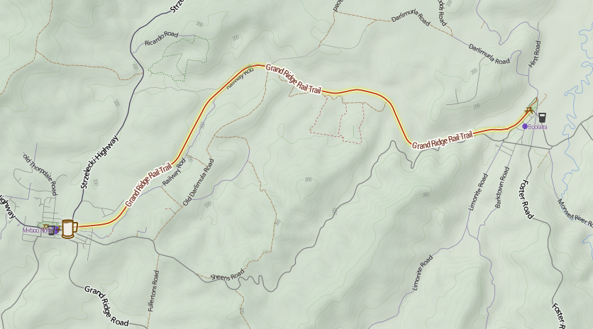 Map of the Grand Ridge Rail Trail. Cartography by me, data is OpenStreetMap.